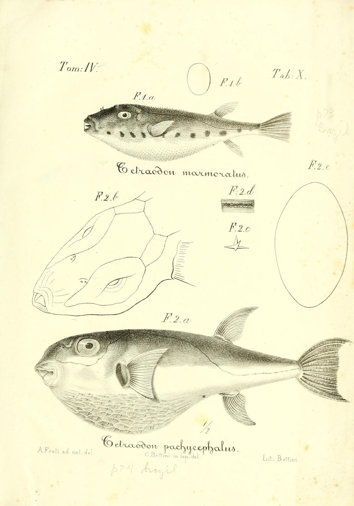 Sphoeroides marmoratus syn. Tetraodon marmoratus & Lagocephalus laevigatus syn. Tetraodon pachycephalus